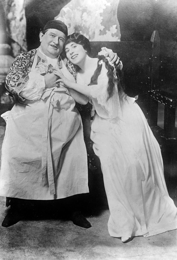 Bain News Service,, publisher. L'amore medico, opera by Ermanno Wolf-Ferrari, with Antonio Pini-Corsi and Lucrezia Bori in 1914 [between ca. 1910 and ca. 1915] 1 negative : glass ; 5 x 7 in. or smaller. Notes: Title from unverified data provided by the Bain News Service on the negatives or caption cards. Forms part of: George Grantham Bain Collection (Library of Congress). Format: Glass negatives. Repository: Library of Congress, Prints and Photographs Division, Washington, D.C. 20540 USA, General information about the Bain Collection is available at Persistent URL: Call Number: LC-B2- 3007-6